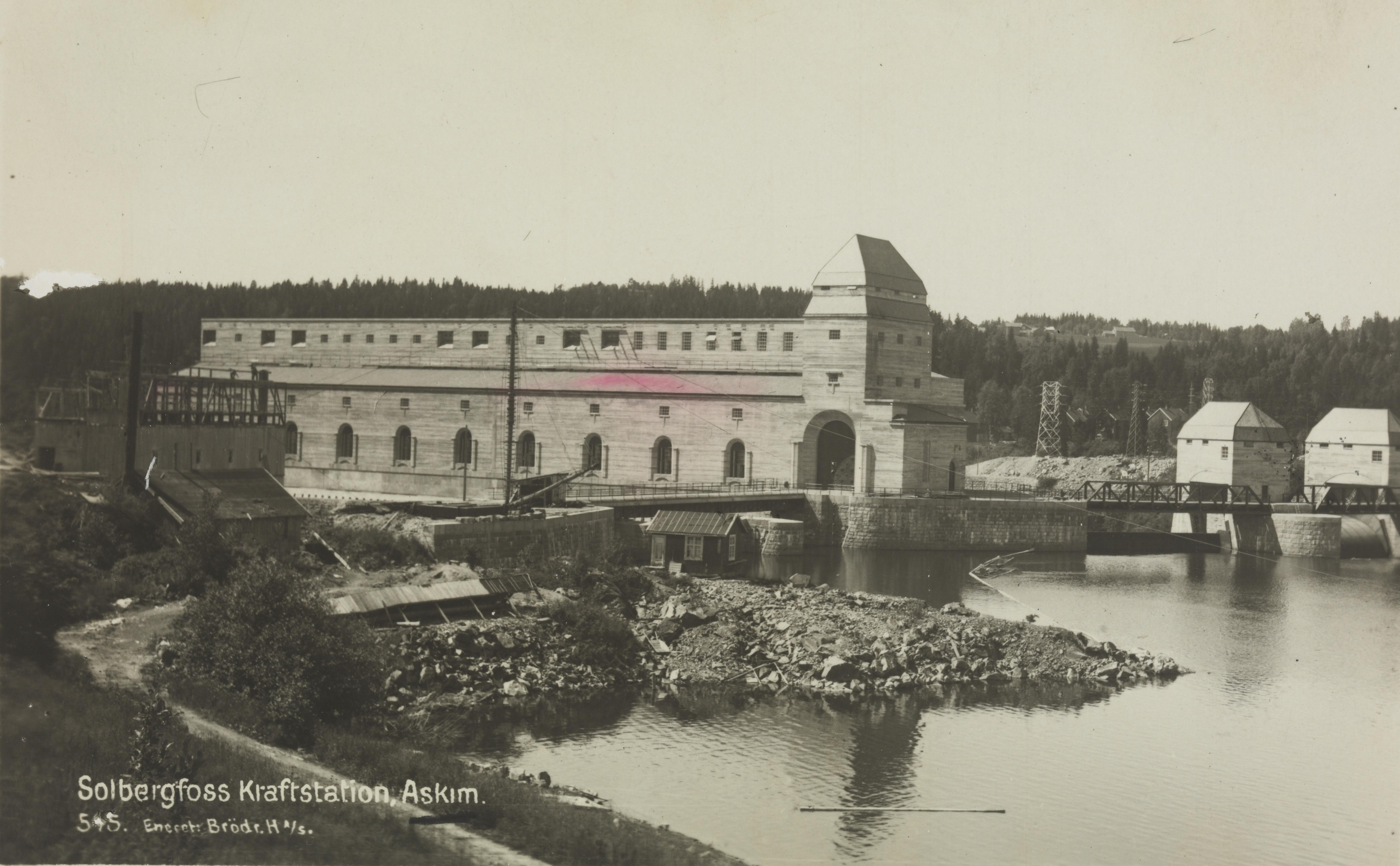 Solbergfoss hydroelectric power plant in Glomma river, Askim, Østfold, Norway. Image from the Nasjonalbiblioteket collection